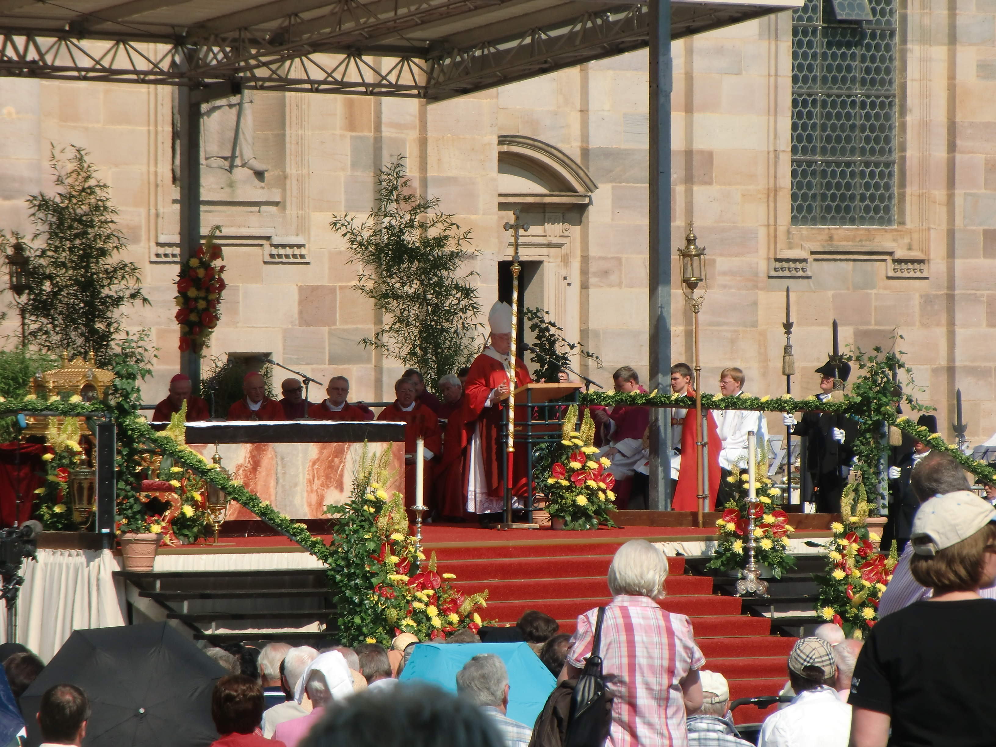 Bischop Hans-Josef Becker preaches at the Bonifatiusfest 2011 in Fulda.